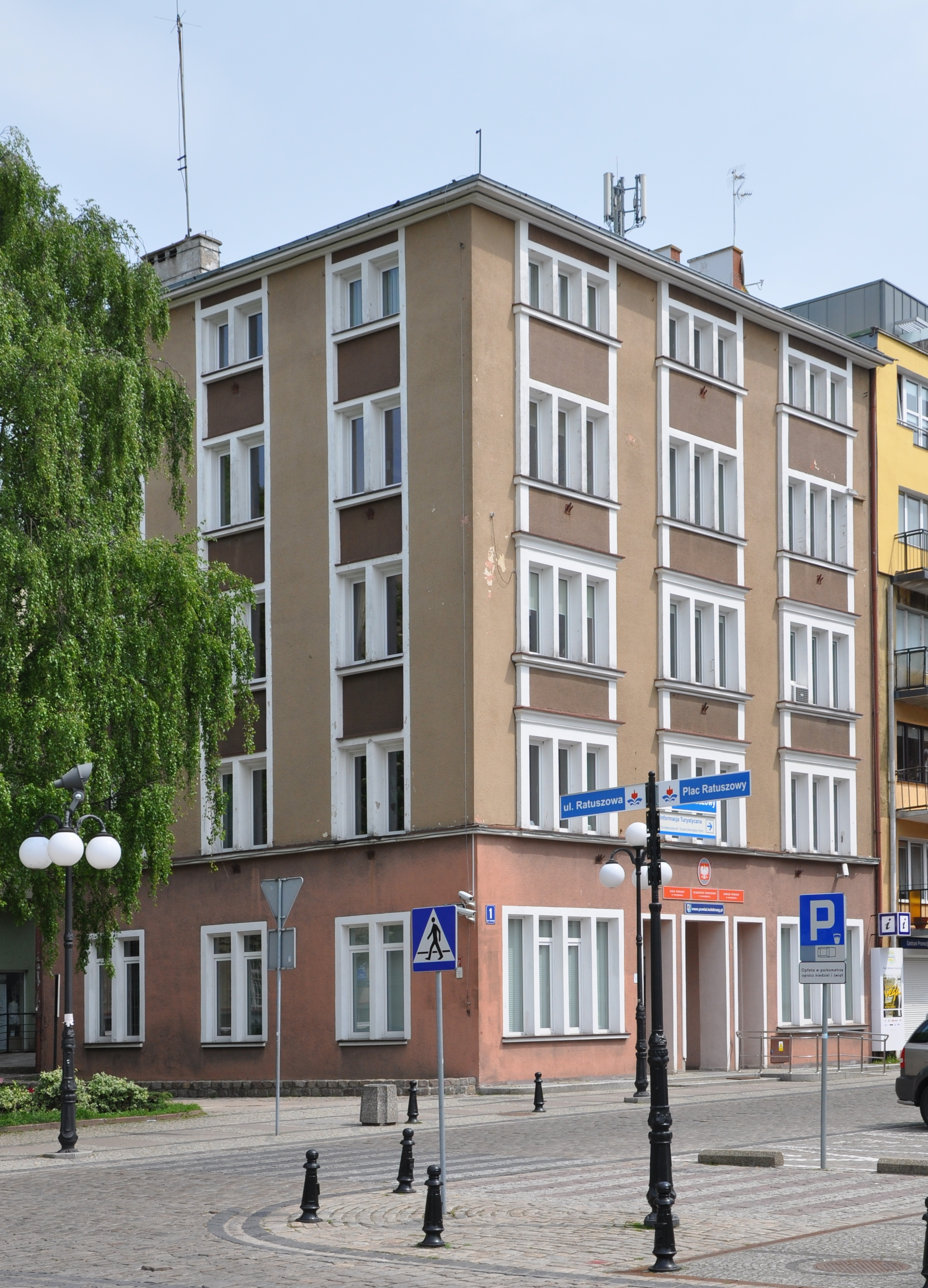 Seat of the Powiat kołobrzeski (Kołobrzeg County), Poland